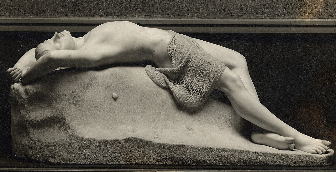 The Dead Pearl Diver, by Benjamin Paul Aker, 1858